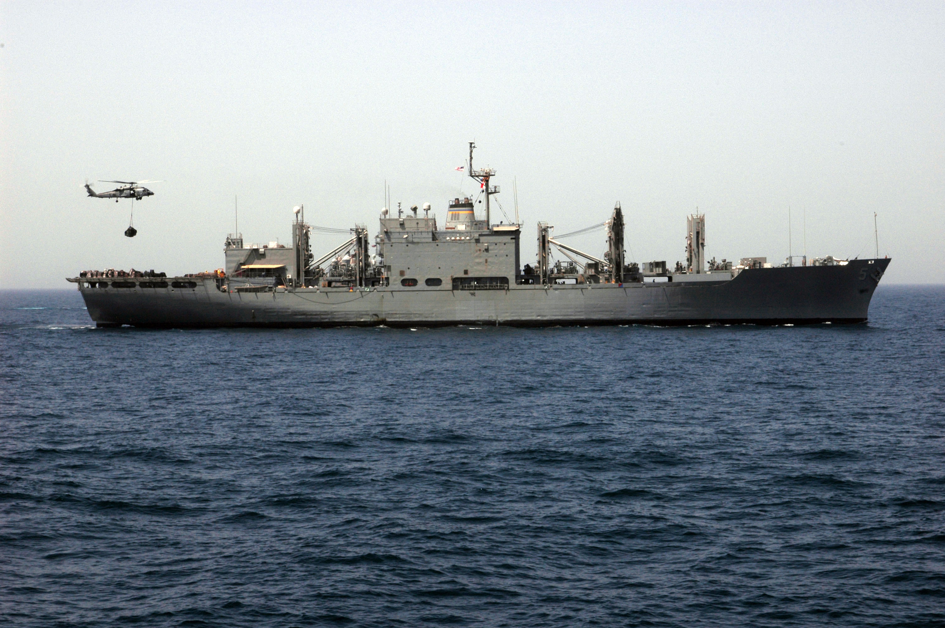 PERSIAN GULF (June 18, 2007) – An SH-60F Seahawk receives cargo from the Military Sealift Command (MSC) combat stores ship USNS Concord (T-AFS 5) during a vertical replenishment at sea with nuclear-powered aircraft carrier USS Nimitz (CVN 68). Nimitz Carrier Strike Group and embarked Carrier Air Wing 11 are deployed in the U.S. 5th Fleet conducting maritime operations and supporting the global war on terrorism.